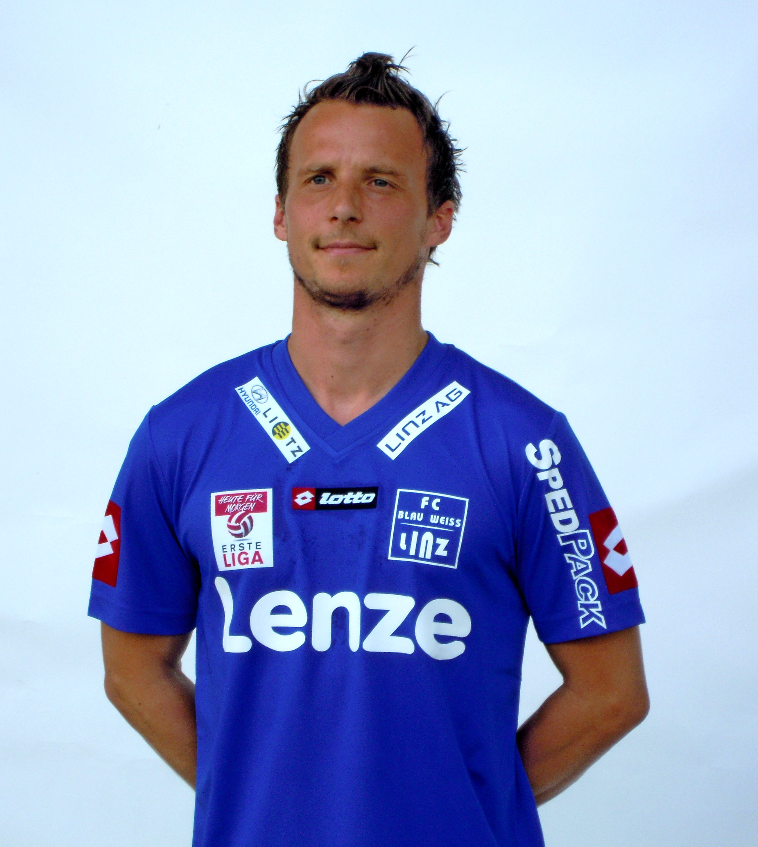 Konstantin "Tino" Wawra, player of FC Blau-Weiss Linz, during a photo shoot on 30 June 2012 at the stadium of Linz